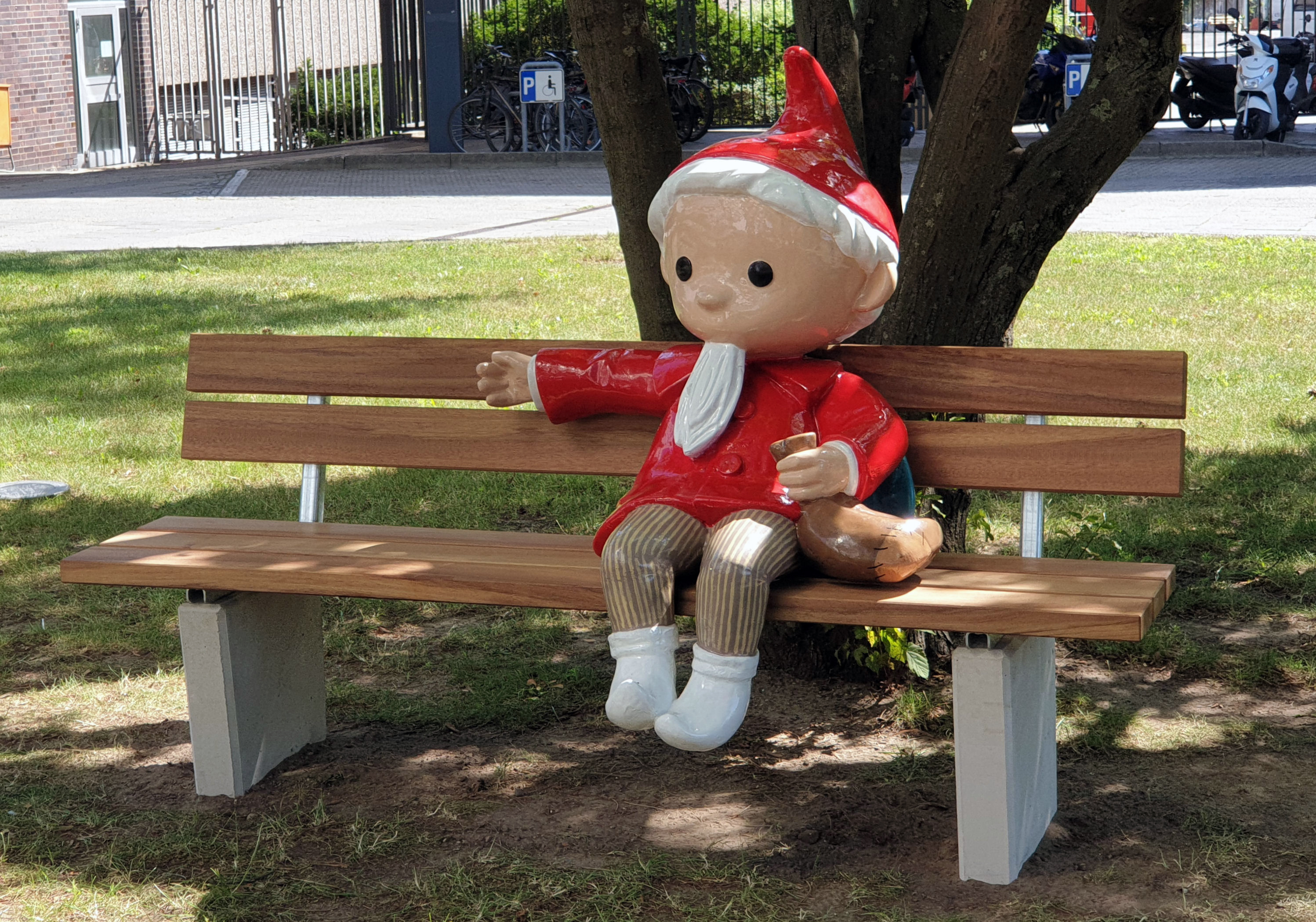 Sculpture, "'Sandmann" by Thomas Lindner, 2019, Masurenallee 16, Berlin-Westend, Germany